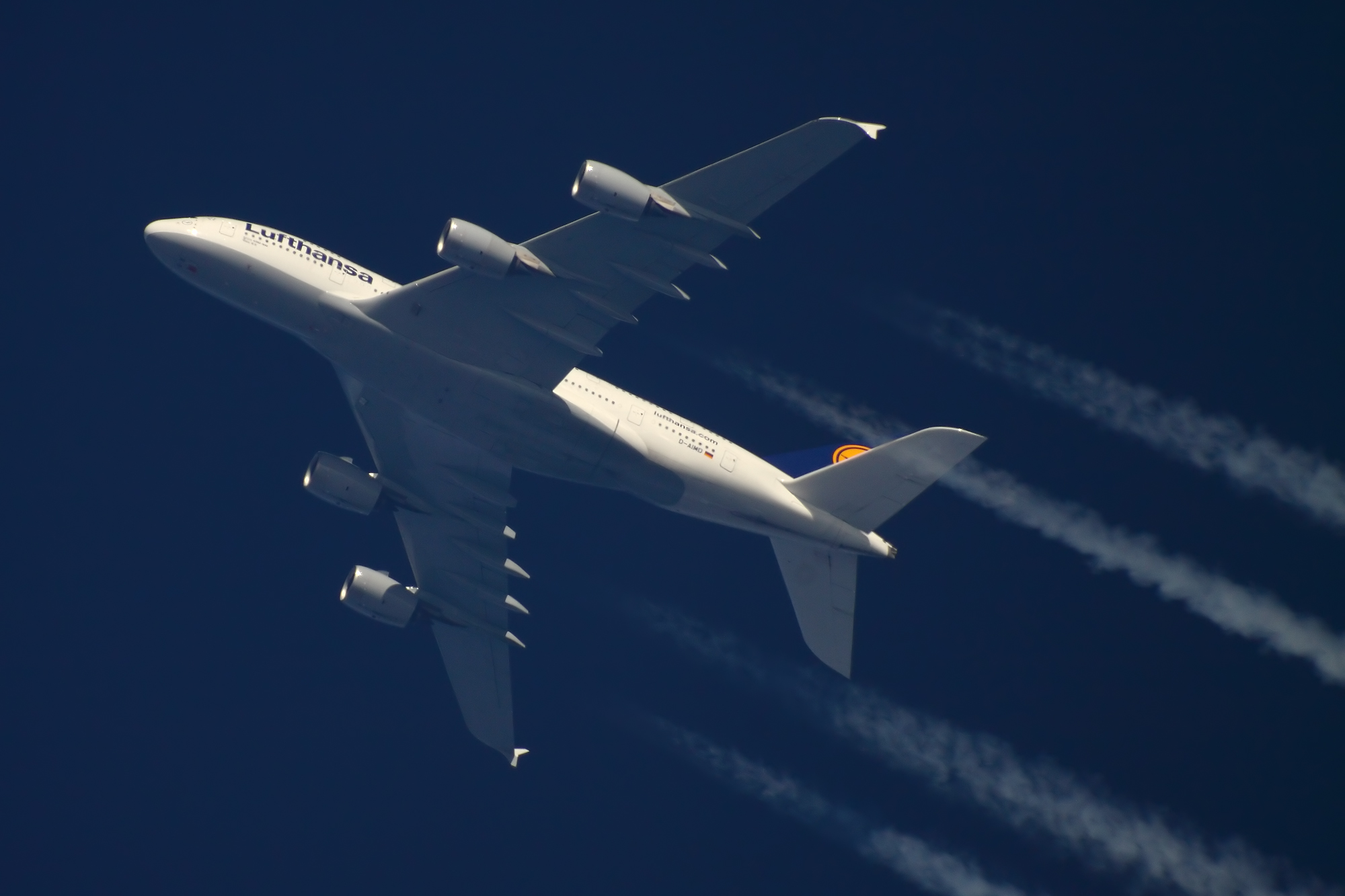 Lufthansa Airbus A380-800 D-AIMD "Tokio" cruising at 11600m (38000 ft)